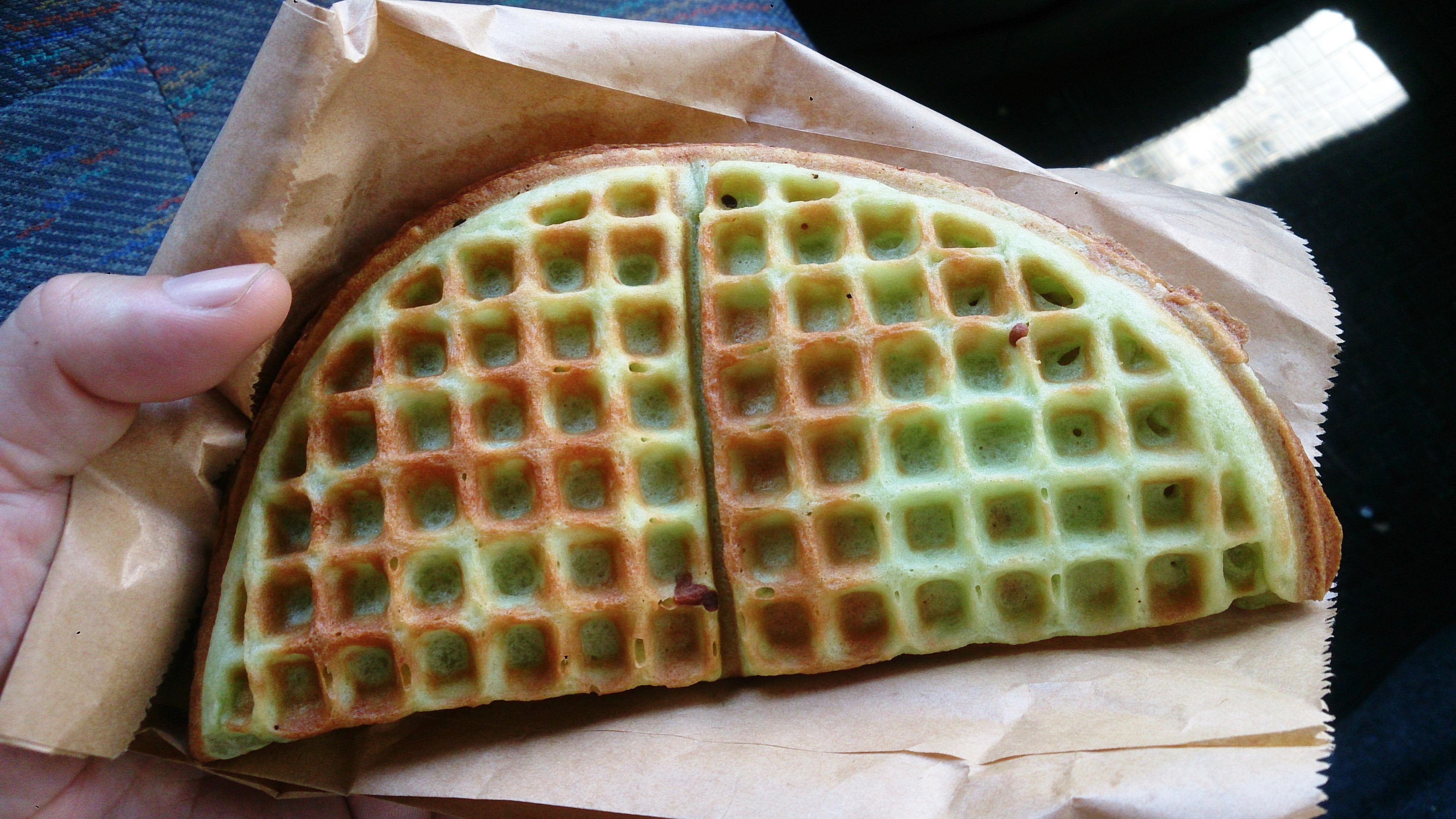 Good for the tummy. Common in Singapore